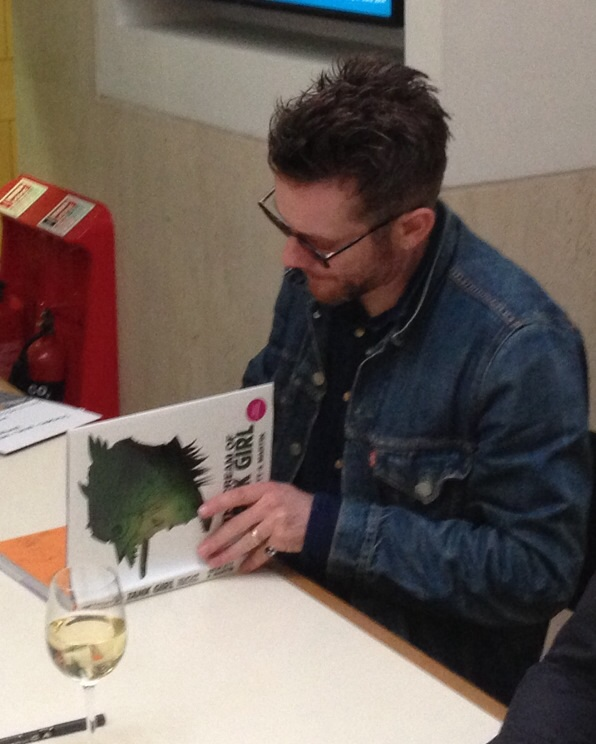 Jamie Hewlett in 2014 signing copies of "The Cream of Tank Girl" at a Tank Girl lecture at the British Library.